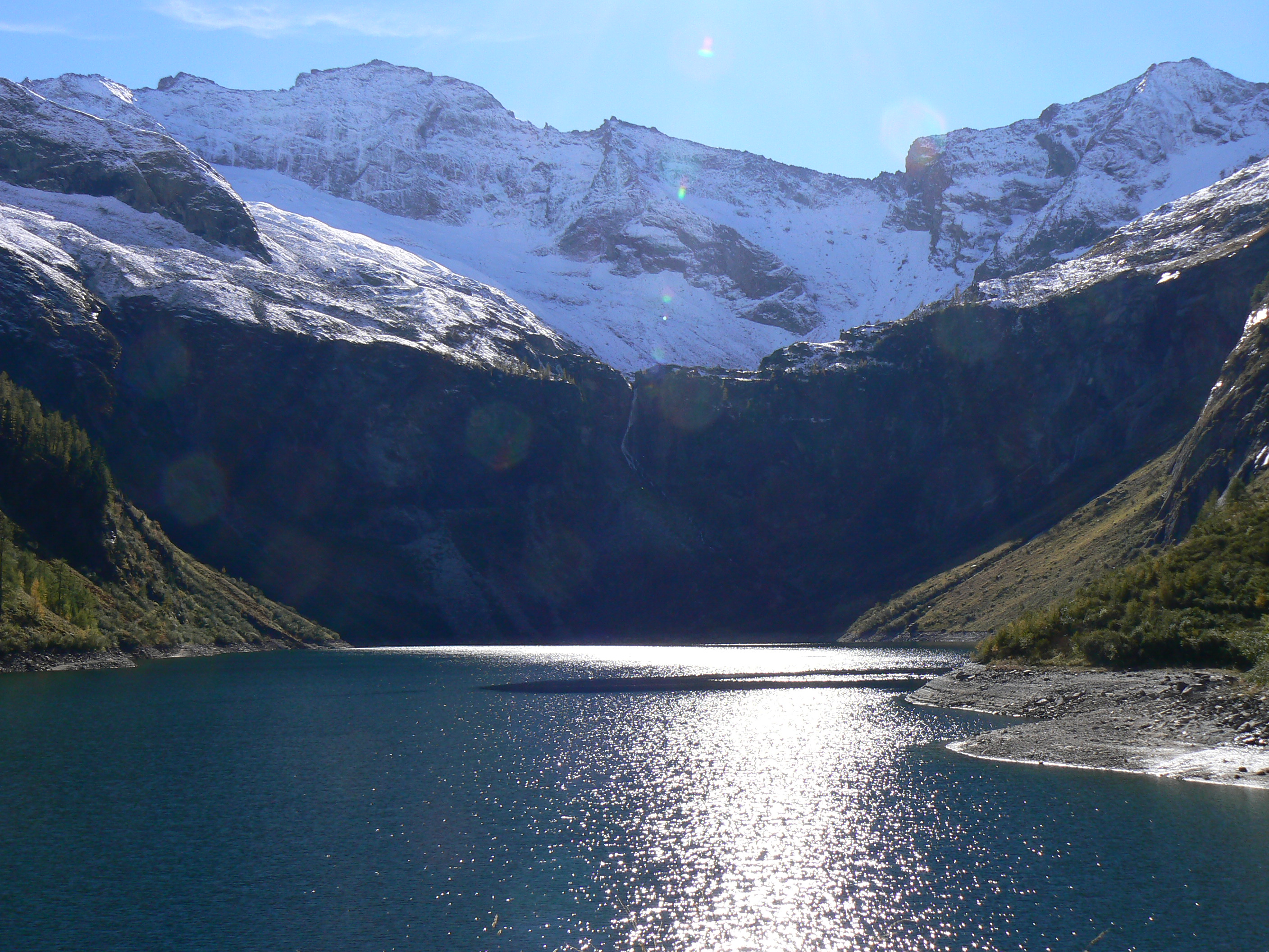 Lower Rotgüldensee 1731 m, Lungau , Salzburg, Austria